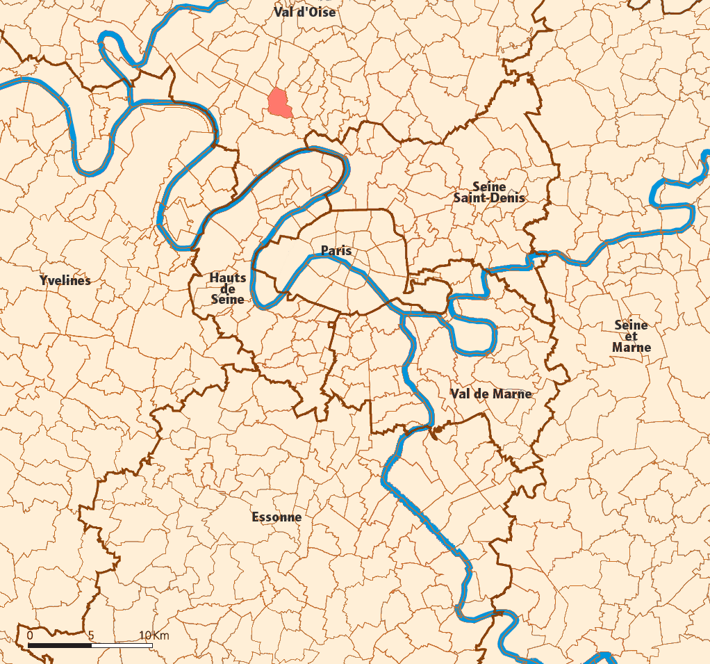 Created map myself.